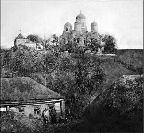 Church of the Resurrection in the village of Upper Scorcese Tula province. 1889-1894. Photo of the first half of XX century, the temple is not preserved.